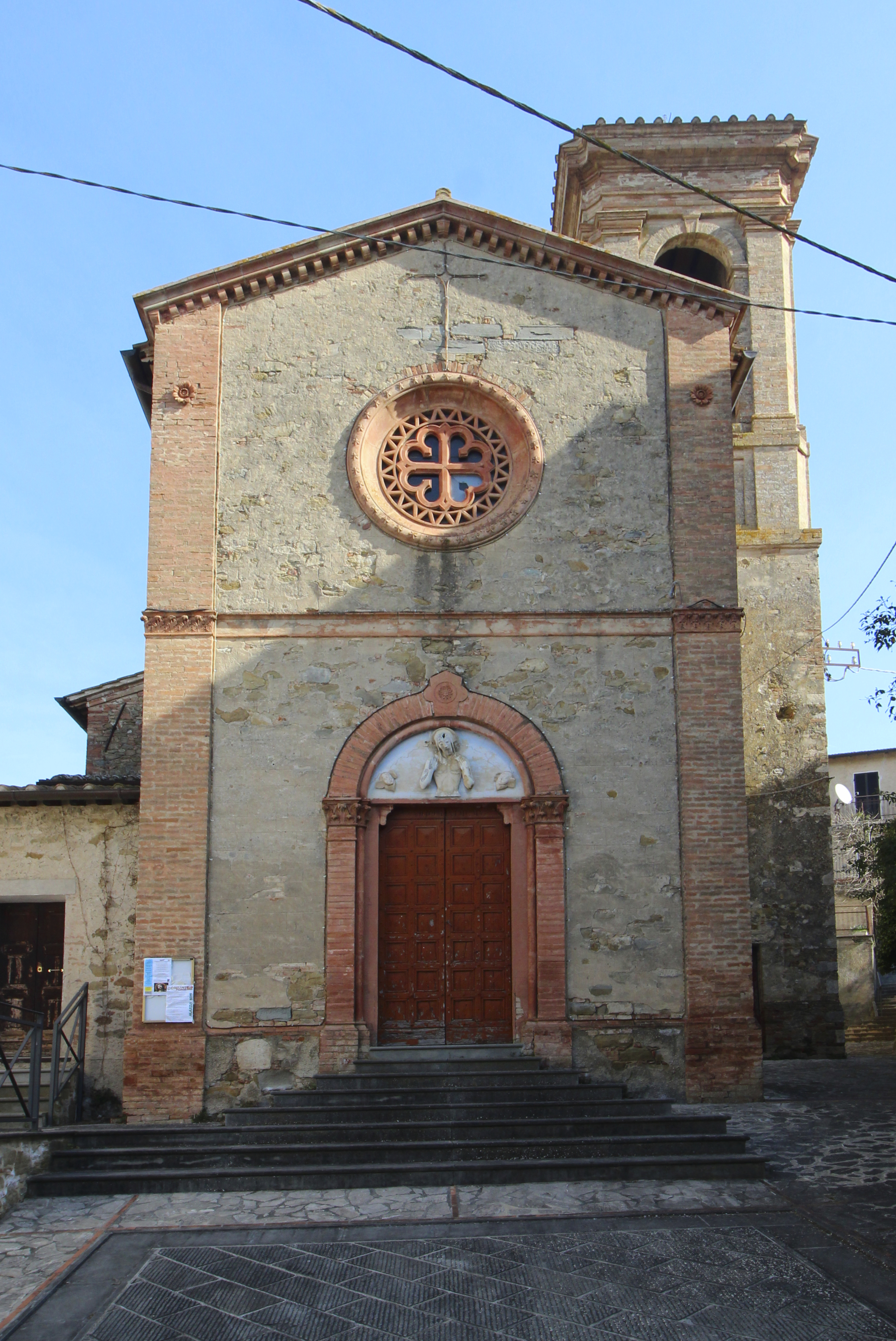 Church Santa Maria Assunta, Pieve Caina, hamlet of Marsciano, Province of Perugia, Umbria, Italy